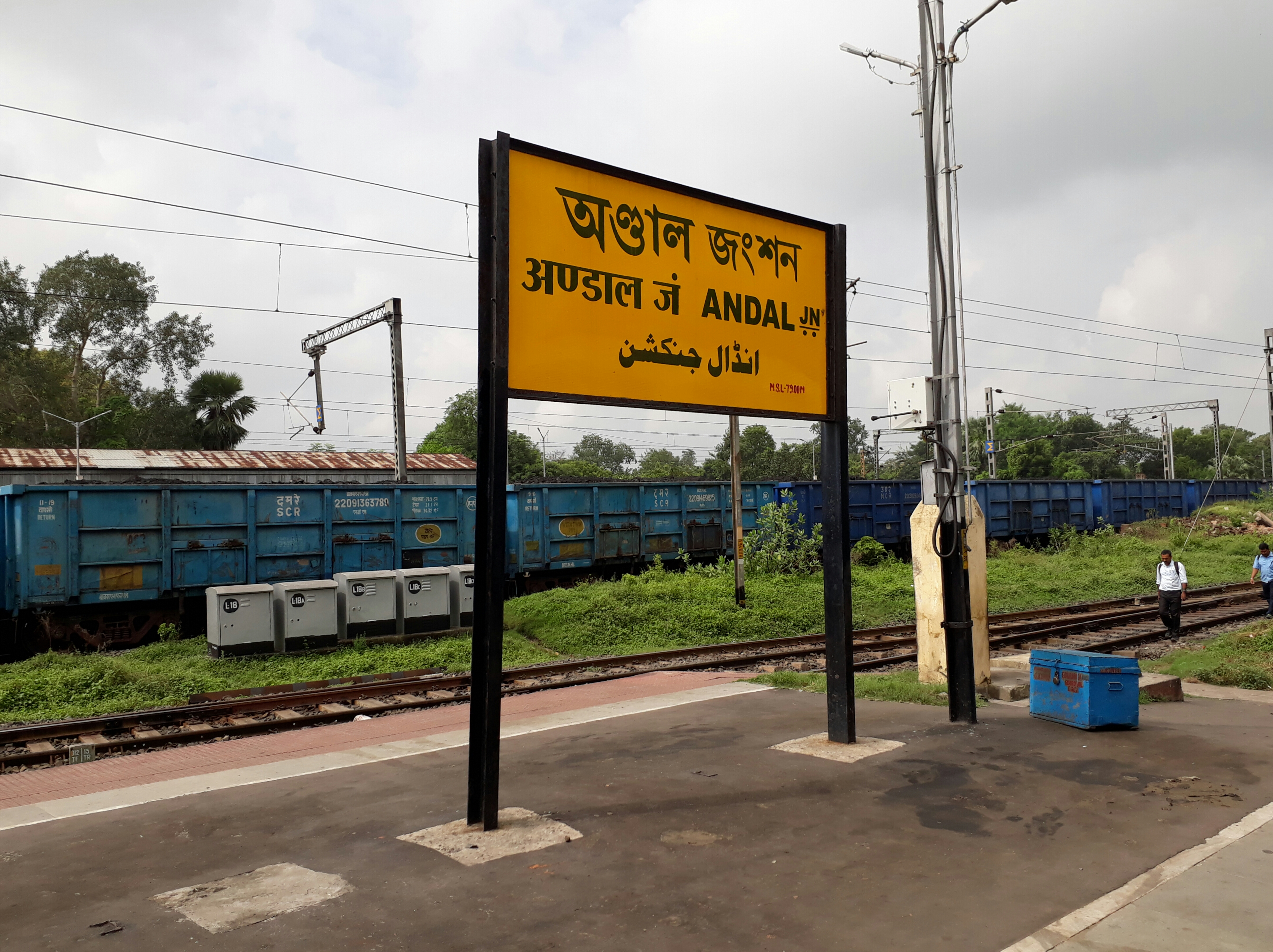 Andal Railway station, Burdwan. West Bengal